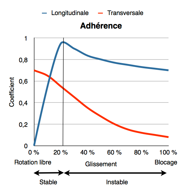 Characteristic curves of longitudinal and transversal adherence coefficients in function of skid.